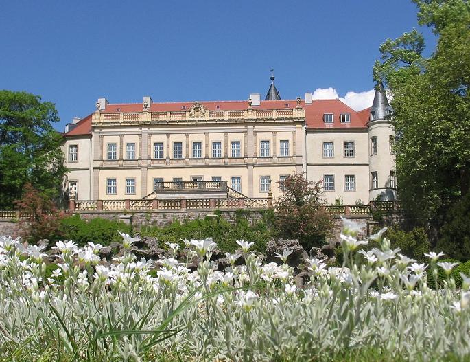 Palace Wiesenburg with garden. The palace contains remains of a castle from 12th century. Modification to a palace in 15th century, rebuilding after Thirty Years’ War until beginning 18th century. The village Wiesenburg is a municipality in the district Potsdam-Mittelmark of the German state Brandenburg and is situated in the nature park Naturpark Hoher Fläming.